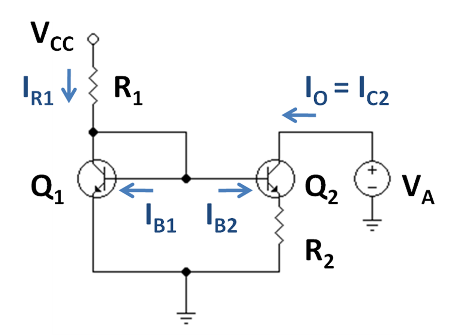 Widlar current source using bipolar transistors - the original (1965) US patent for a ratioed CCS.